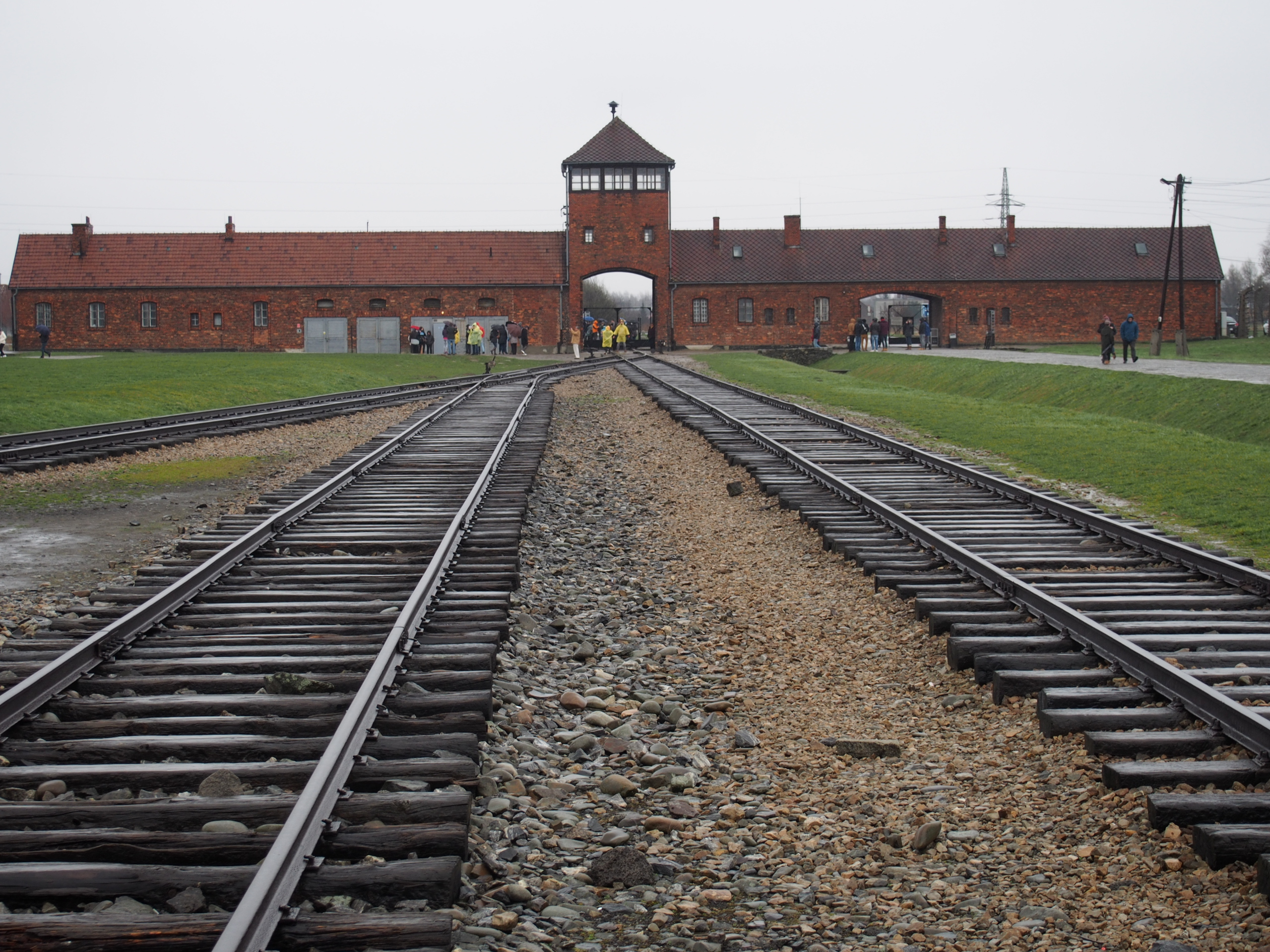 A picture of Auschwitz